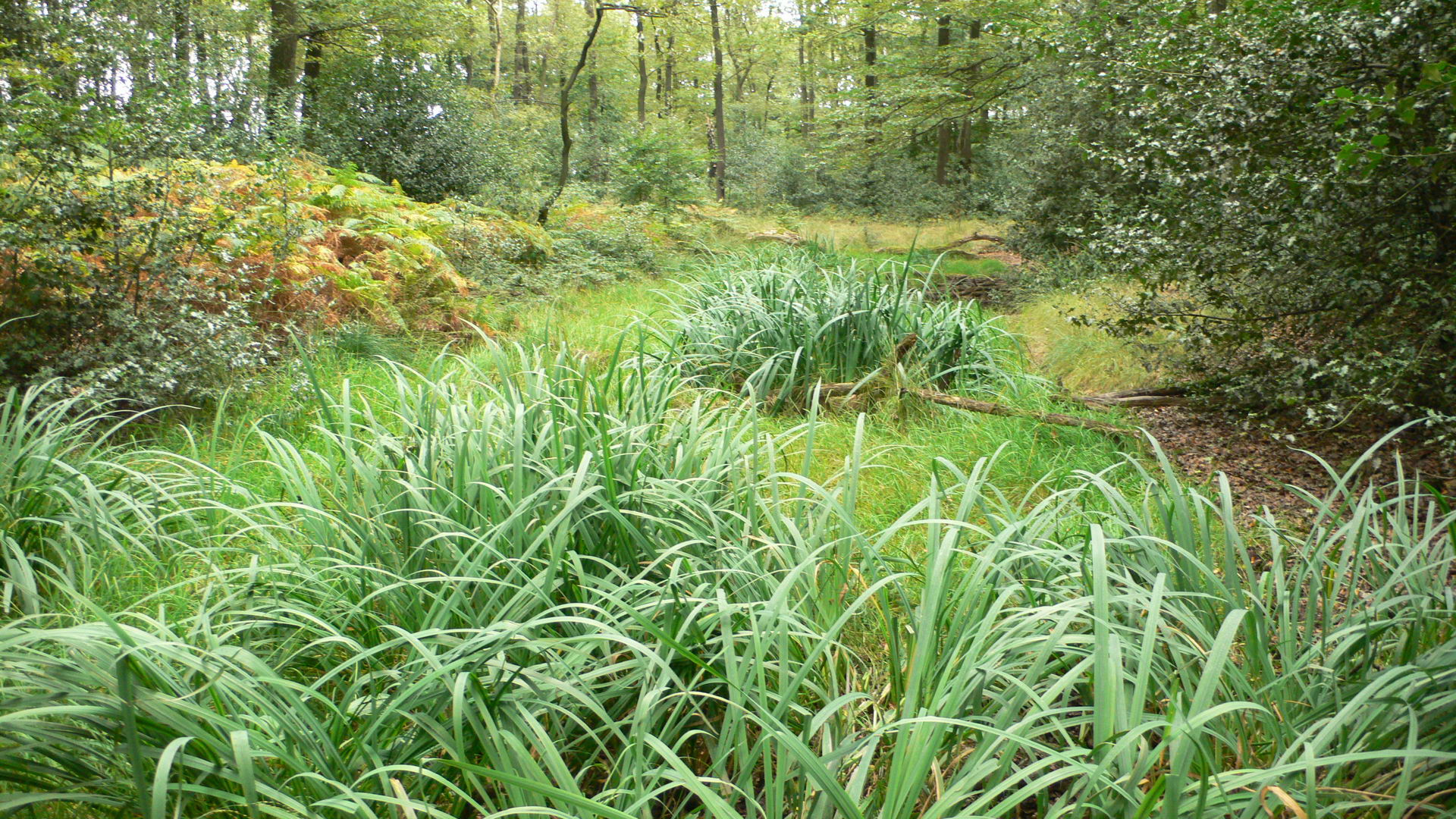 "Flachsteich" (former flax retting lake) near Meininghausen in Ennepetal, Germany This is a photograph of an archaeological site. It is on the list of cultural monuments of Ennepetal